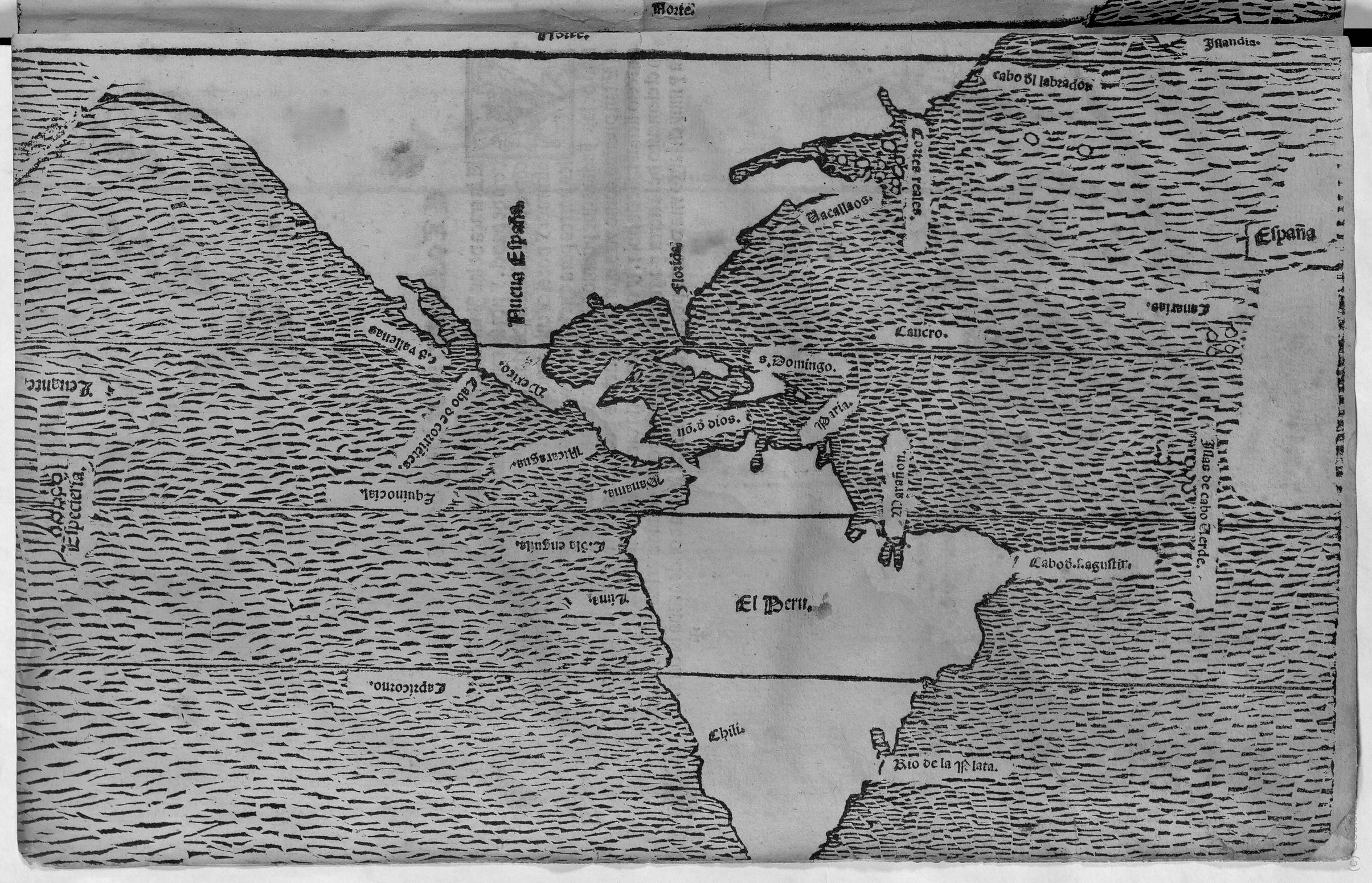 Spanish map of America entitled "Toda la tierra de las Indias" (All the land of the Indies) and contained in the book HIstoria general de las Indias by Francisco López de Gómara, first published in 1552.